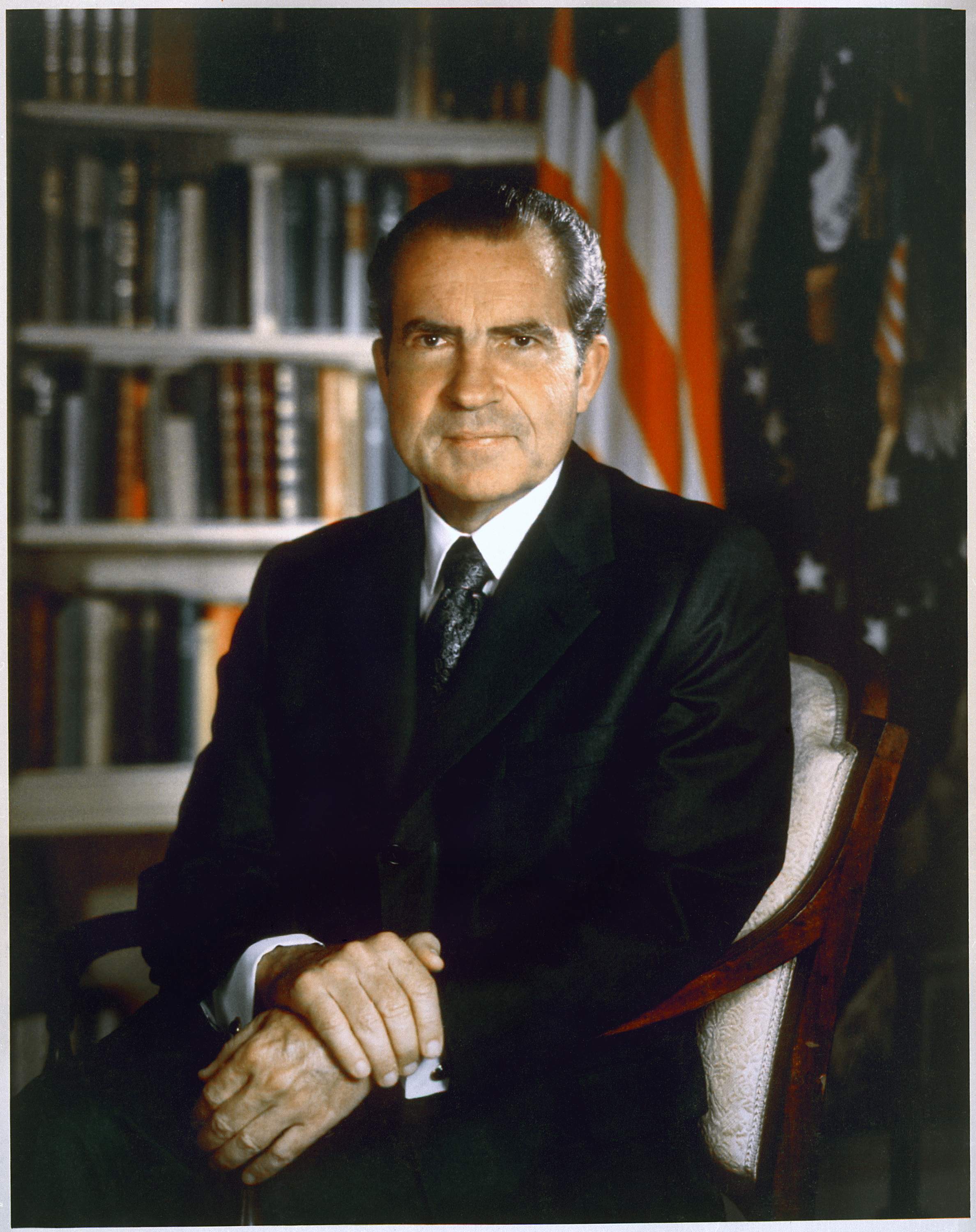 Scope and content: Pictured: Richard M. Nixon. Subject: Presidential Portraits - Formal.